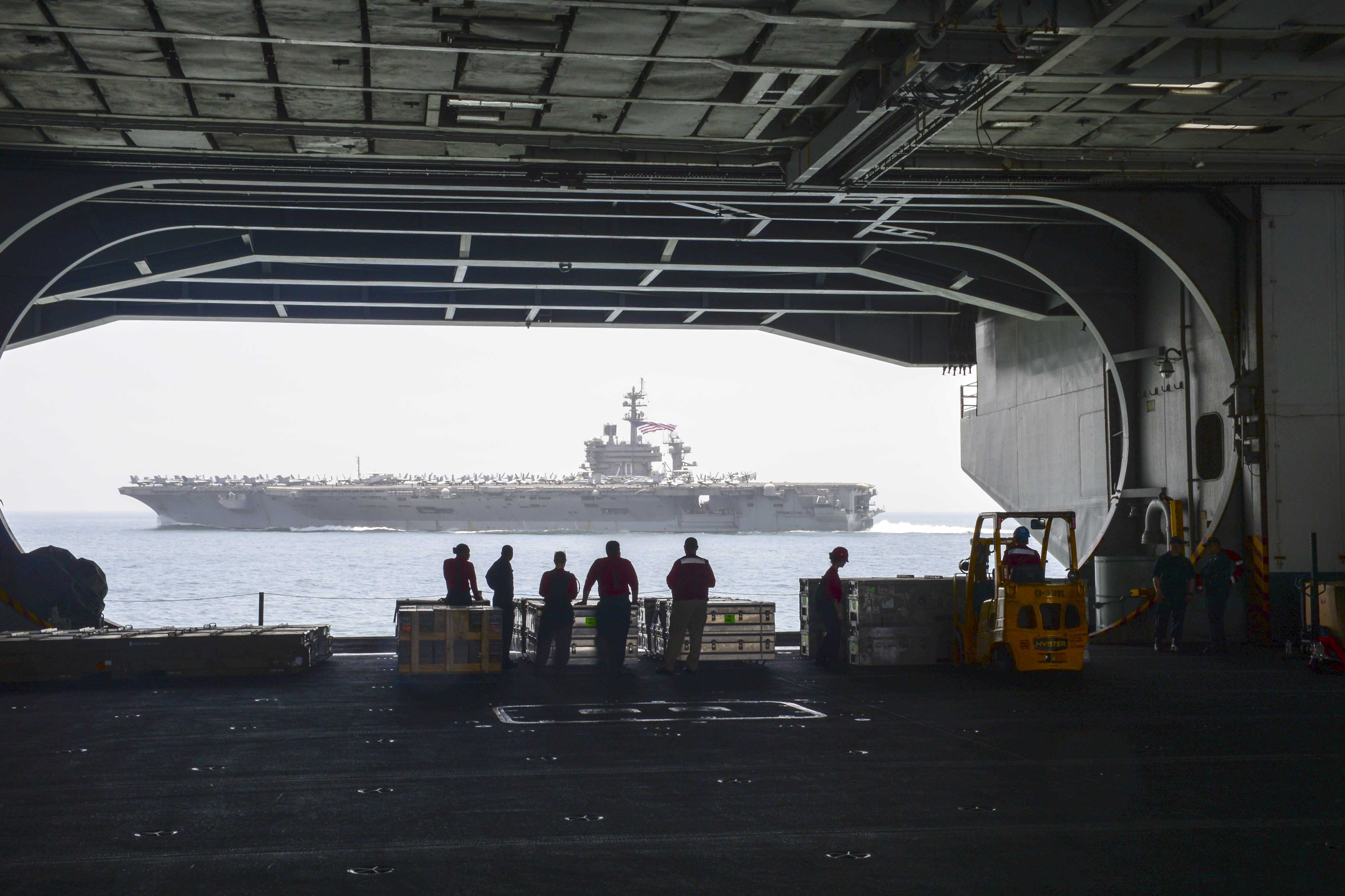 U.S. Navy sailors view the aircraft carrier USS Carl Vinson (CVN-70) from the hangar bay of the aircraft carrier USS Theodore Roosevelt (CVN-71). Theodore Roosevelt was deployed in the U.S. 5th Fleet area of responsibility supporting Operation Inherent Resolve, strike operations in Iraq and Syria as directed, maritime security operations and theater security cooperation efforts in the region.